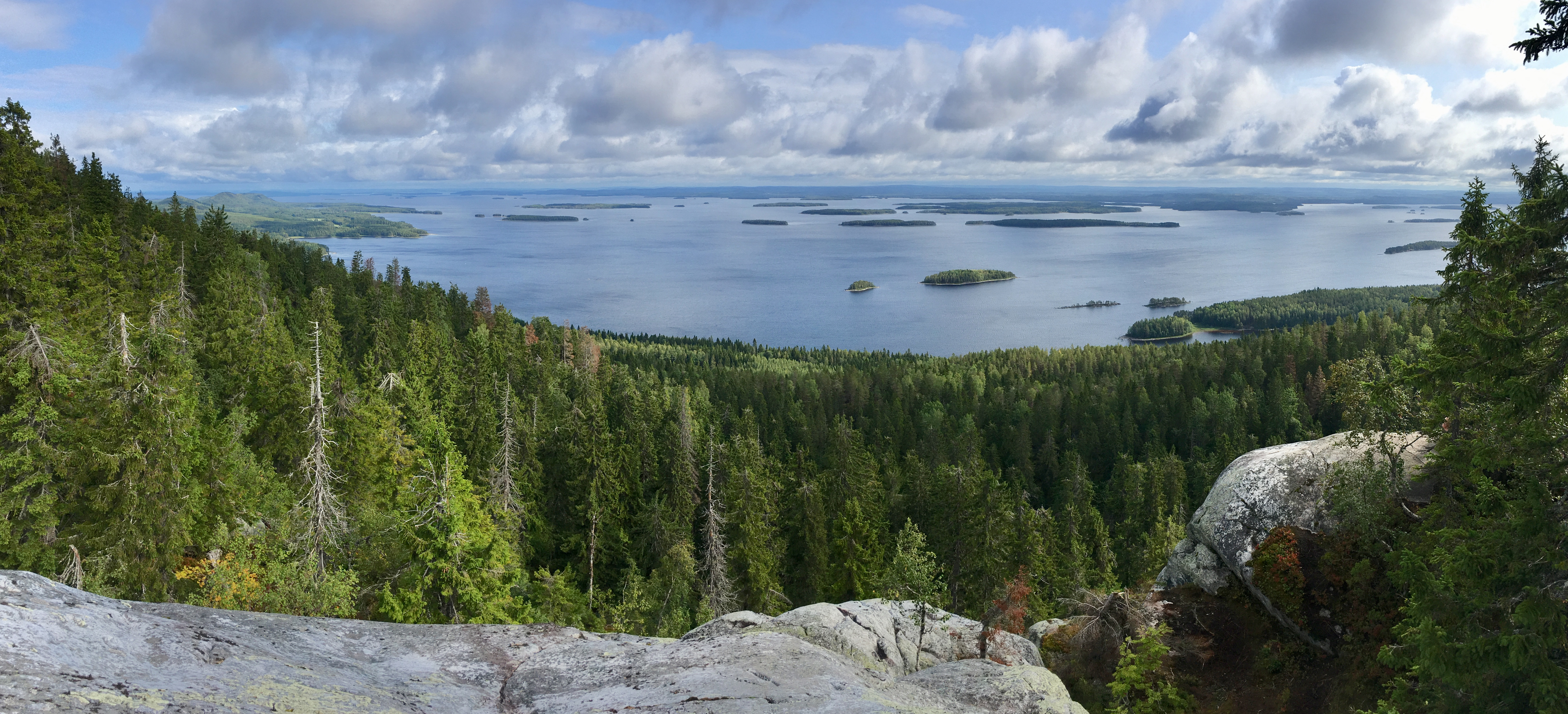 Panoramic view from Koli.